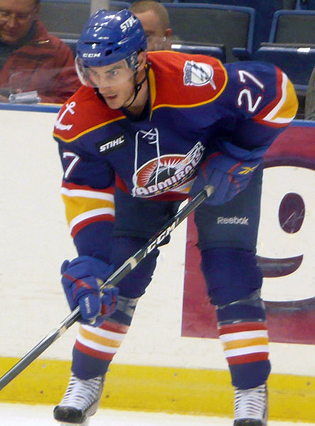 Brandon Bochenski of the Norfolk Admirals awaits a faceoff against the Hartford Wolf Pack in Hartford, CT on 2/17/2010.